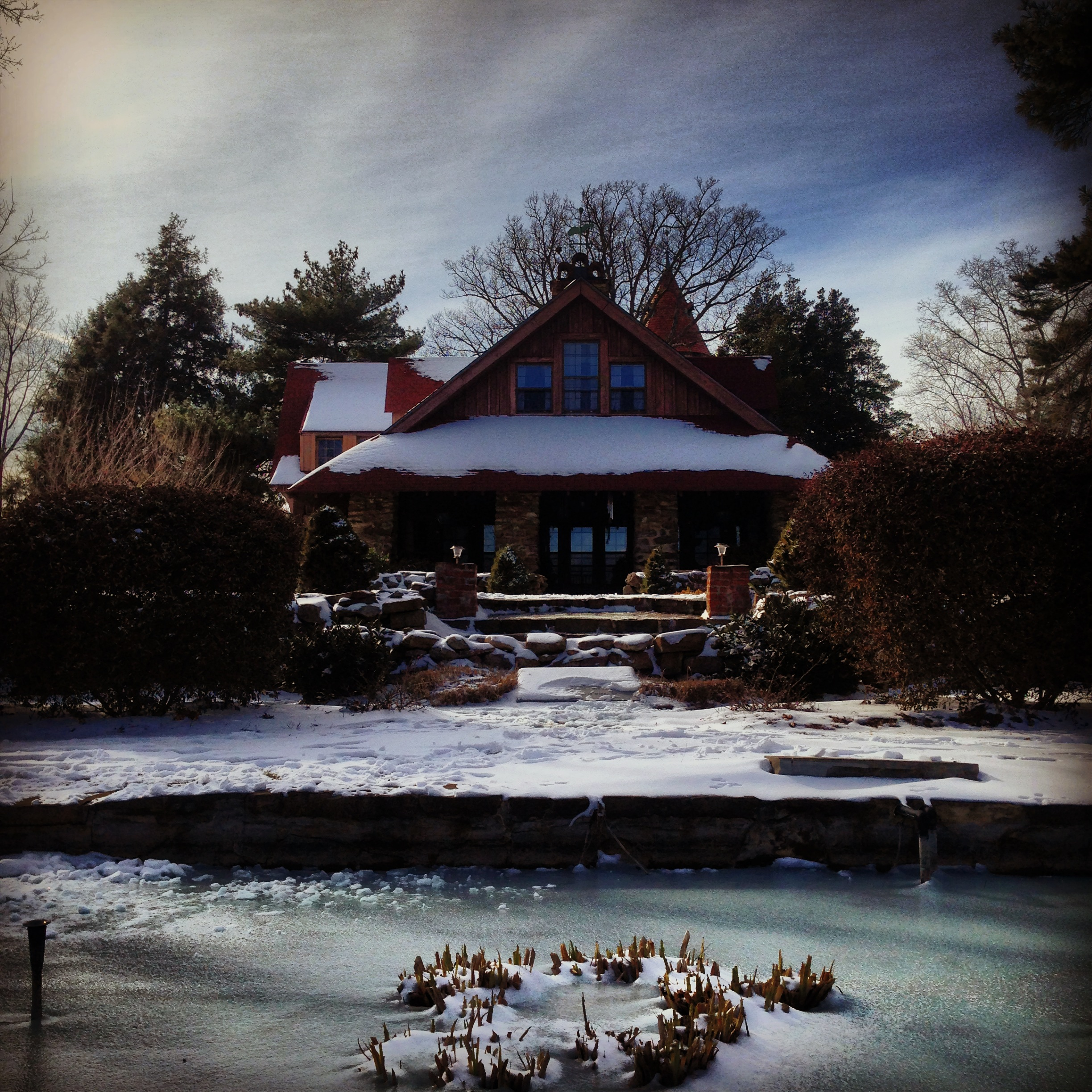 The House O'Dreams located at the summit of Lavender Mountain on the Berry College Campus, pictured here in late January 2014 under a blanket of snow.